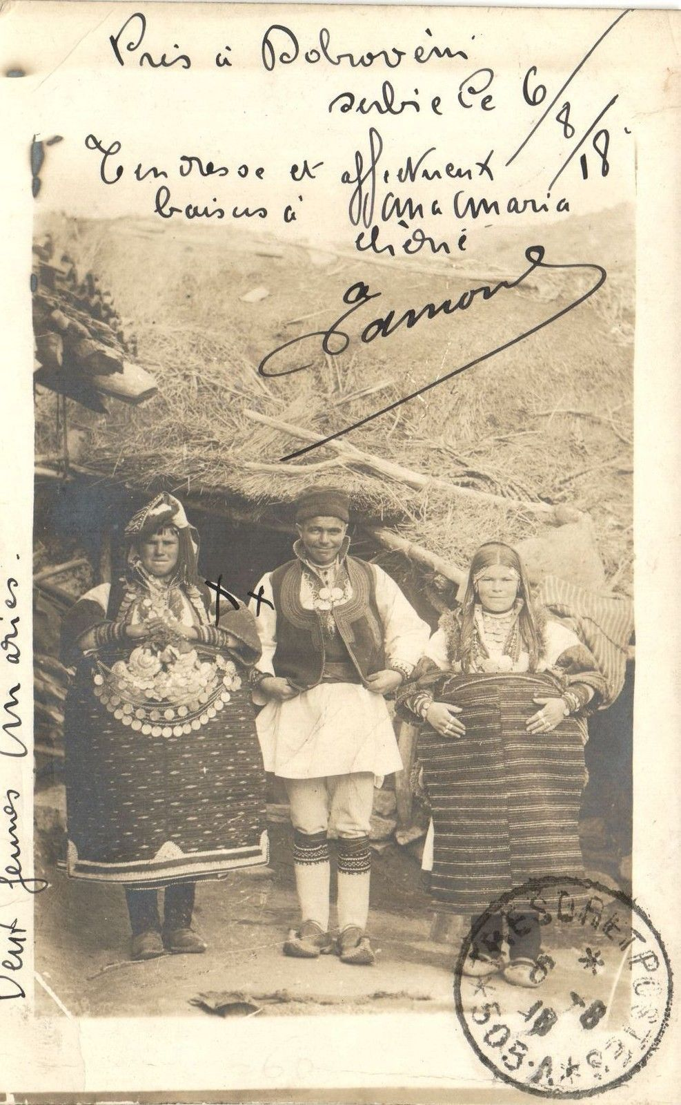 Dobroveni 1918 Postcard